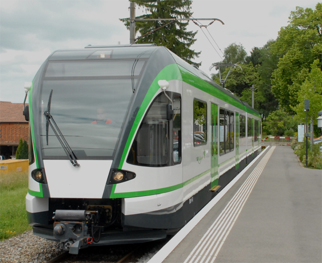 LEB RBe 4/8 41 on 2010 june 7 at Bercher.